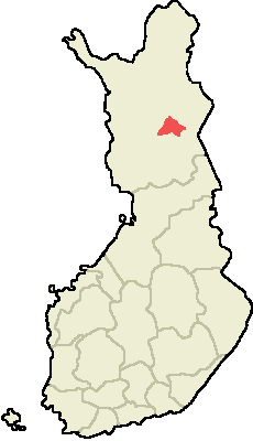 Location of Pelkosenniemi